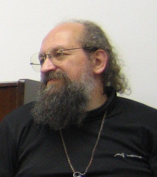 Anatoly Wasserman, Russian "Svoya igra" ("Jeopardy!") and What? Where? When? player